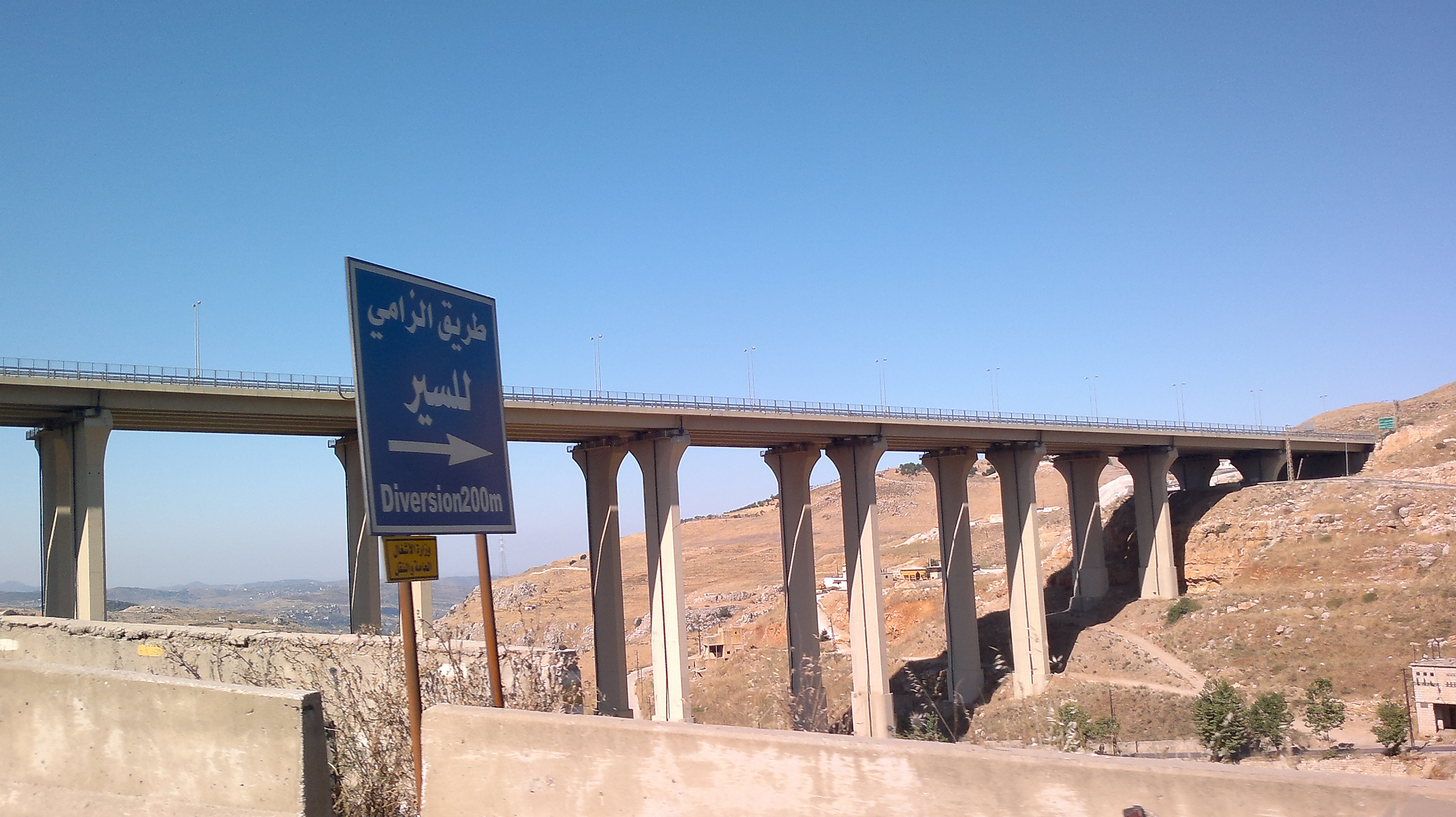 Mudeirej Bridge, Lebanon.